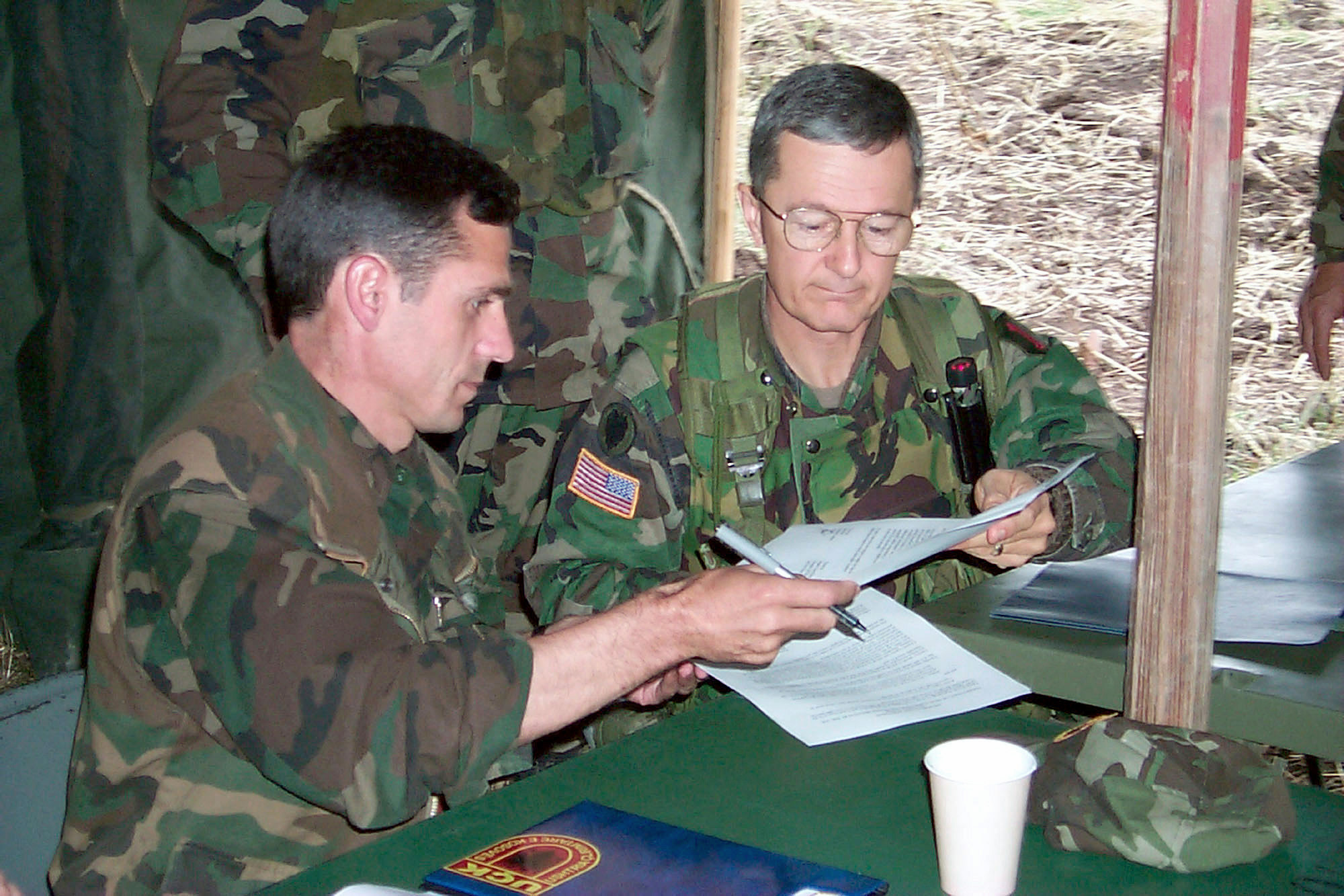 Brigadier General Bantz J. Craddock, (Right), Commander, U.S. Kosovo Forces/Joint Task Force Falcon, exchanges documents with Colonel Ahmed Isusi, Commander, Karadak Zone of the Kosovo Liberation Army, near Cernica, Kosovo. The document signing was part of a local agreement establishing a phased demobilization and demilitarization of KLA Forces in the U.S. Sector in support of NATO Operation Joint Guardian. Camera Operator: MARCUS D. MCALLISTER Date Shot: 25 Jun 1999